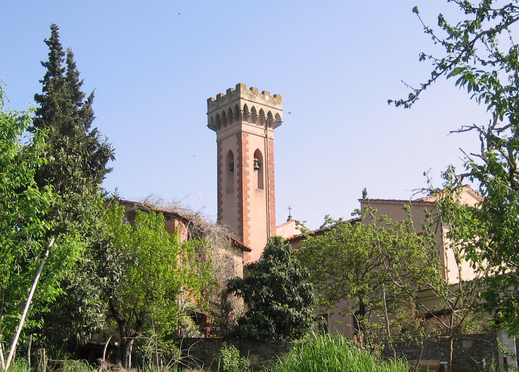 The tower of Ricasoli, an ancient castle of the House of Ricasoli from where the house get the name. It's now a village, frazione of Montevarchi